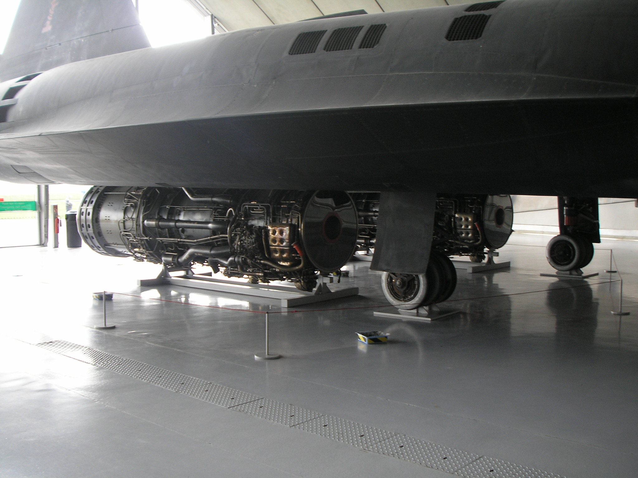 The Pratt & Whitney J58 engines of the SR-71 Blackbird on display at Imperial War Museum Duxford.